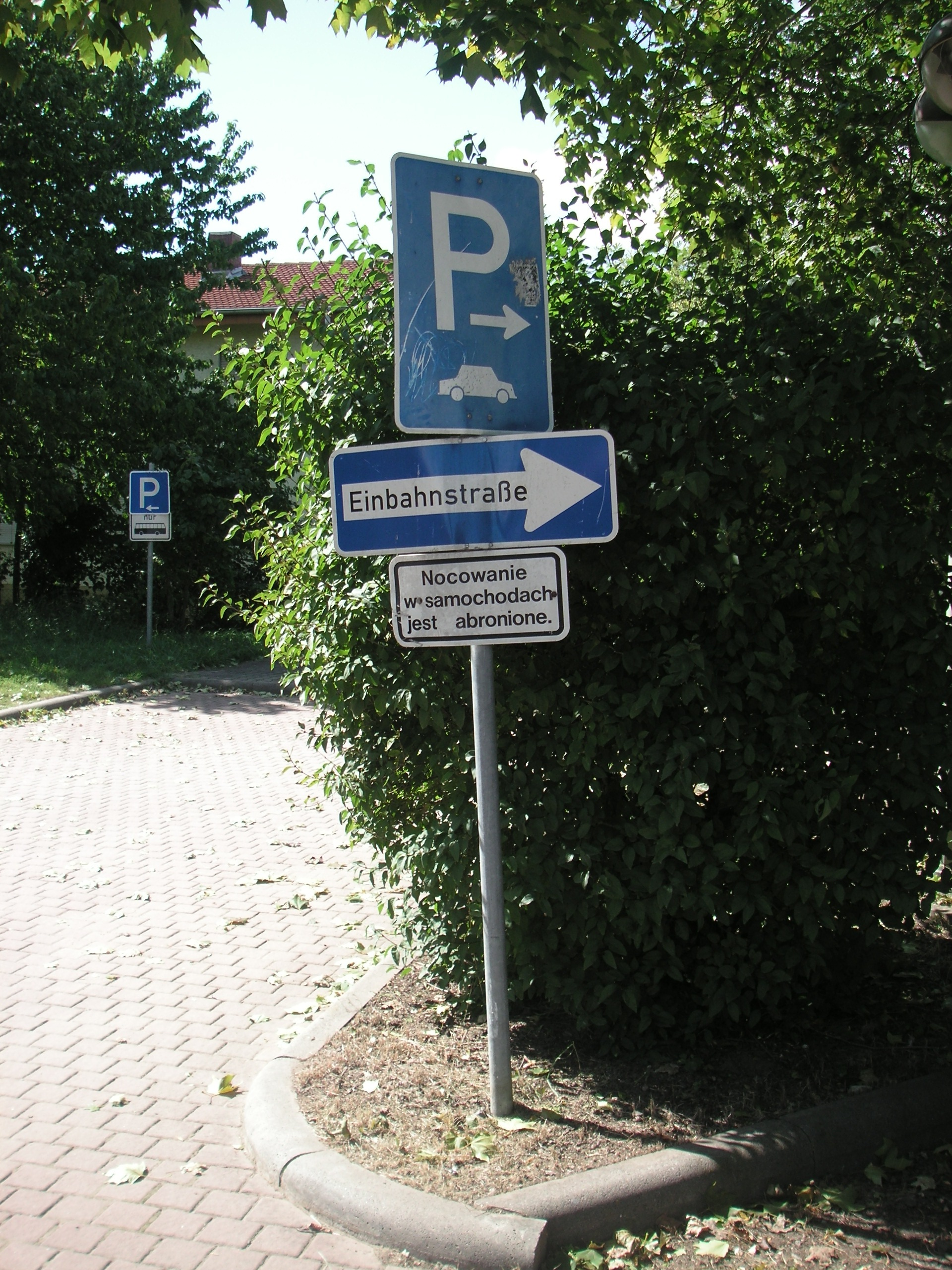 Sign in the Polish language prohibiting overnight stays in cars in a public parking lot in Germany.